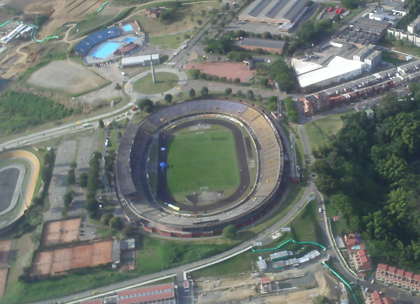 Football stadium Hernán Ramírez Villegas of Pereira (Colombia).